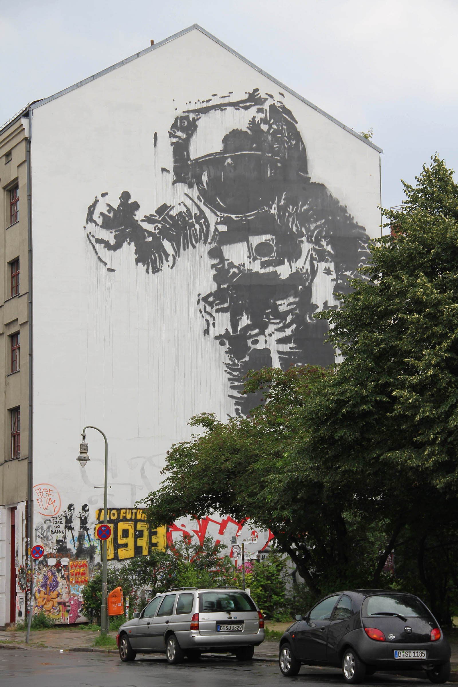 Victor Ash, Astronaut, 2007, Berlin-Kreuzberg, Cuvrystraße